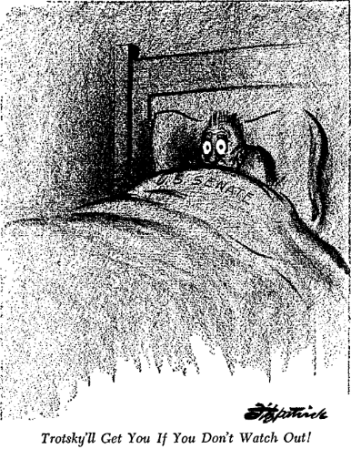 Trosky'll Get You If You Don't Watch Out!